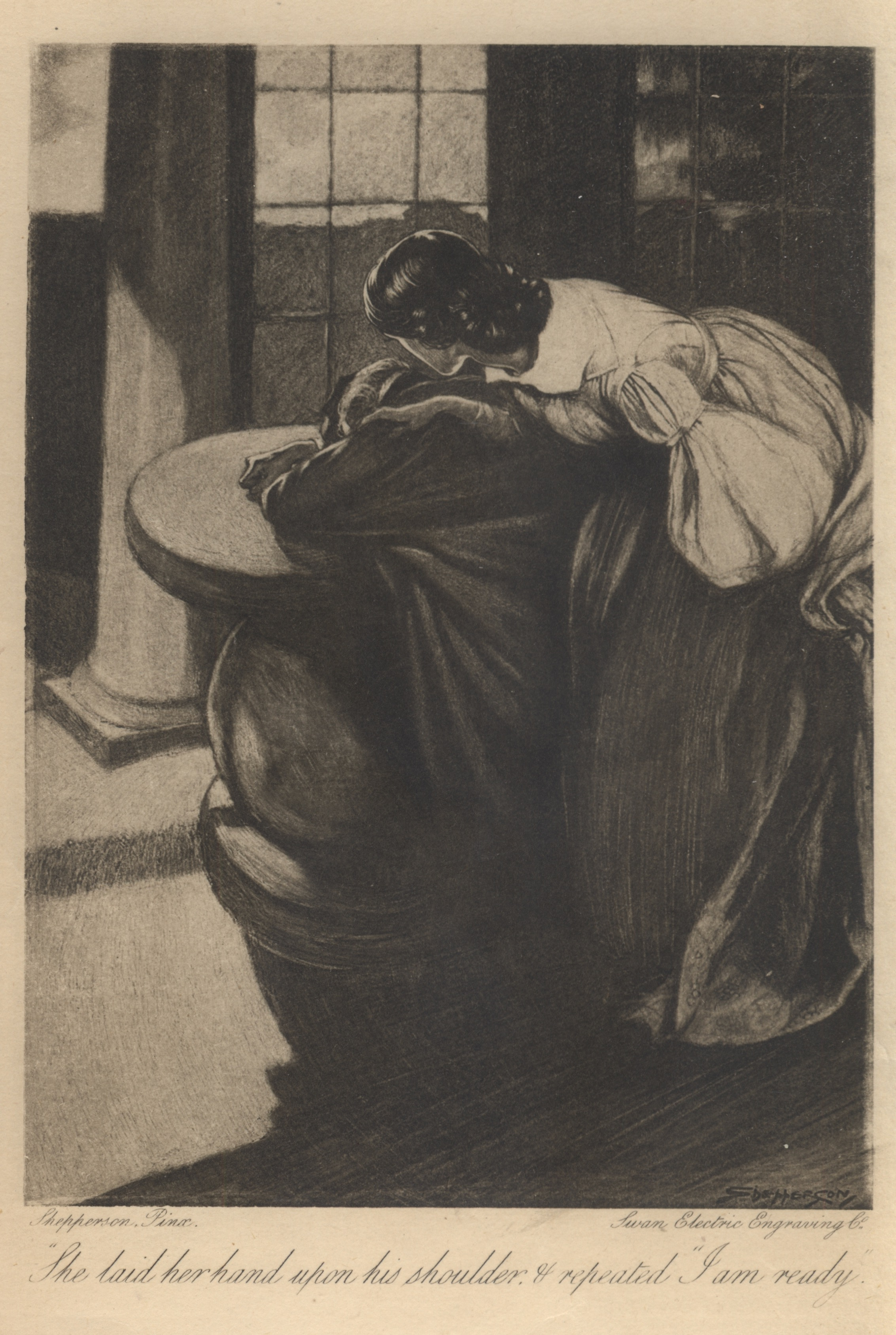 Bibliographic information for this edition of Middlemarch: A Study of Provincial Life: Title: Middlemarch: A Study of Provincial Life. Author: Eliot, George, 1819-1880. Publication Statement: Edinburgh and London: William Blackwood and Sons, [between 1900-1909?*]. Location: McPherson Library, University of Victoria. Call Number: PR4662 A1 1900. Monograph description: 607 pages; Contents: eight books + prelude; Frontispiece illustration by Shepperson [likely Claude Allin] with caption: "She laid her hand upon his shoulder, and repeated, 'I am ready'". Note: Middlemarch was published by Blackwood and Sons in 1872. The novel was serialized in eight parts or 'books' from December 1871 to December 1872. (Source: The Longman Companion to Victorian Fiction by John Sutherland, pp. 432, Longman Group: 1988) *Exact year of publishing unknown. Listed in McPherson Library catalogue as [1990-1908?].